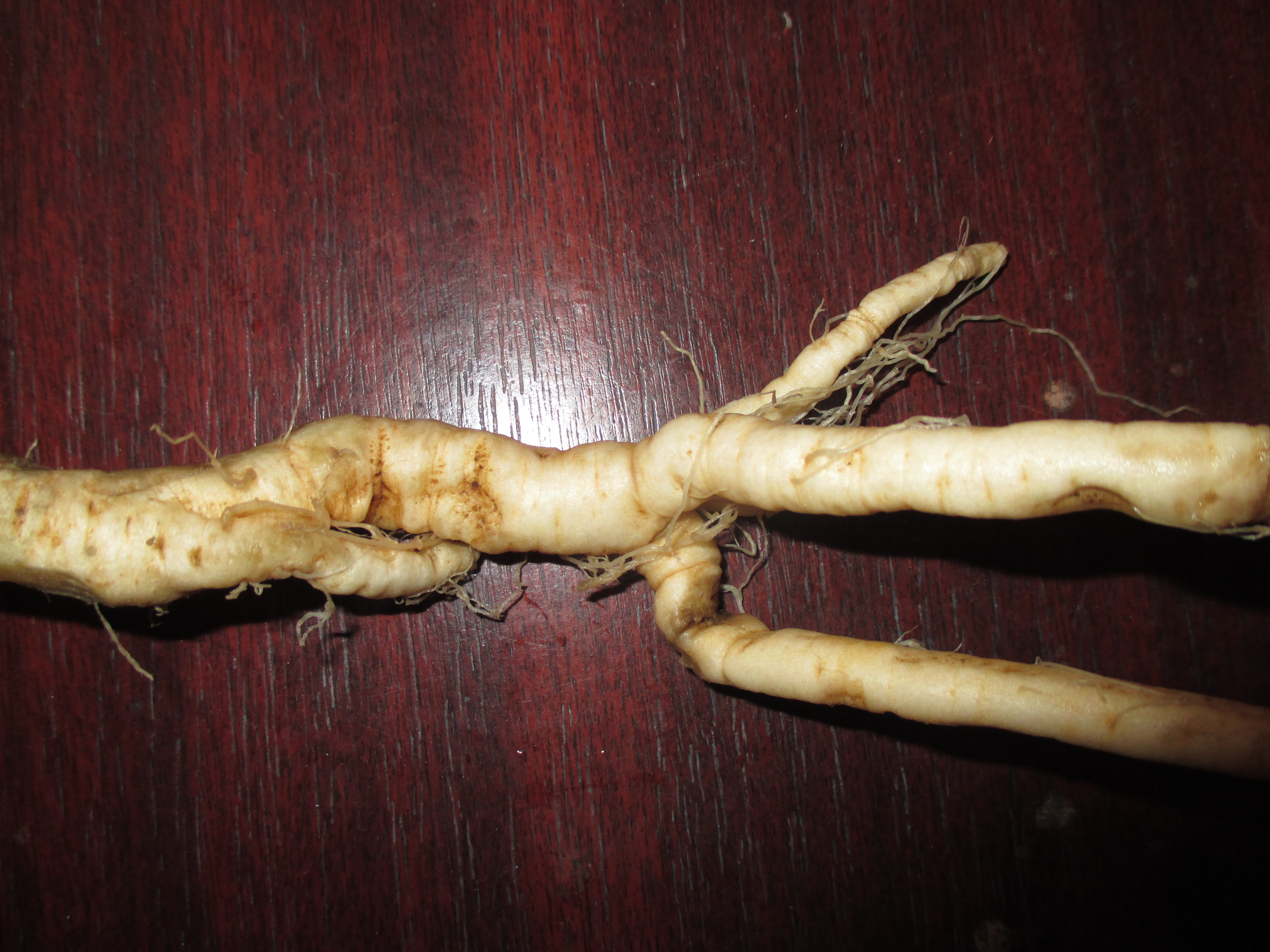 Mandragora autumnalis root, freshly unearthed, close up; Romania.